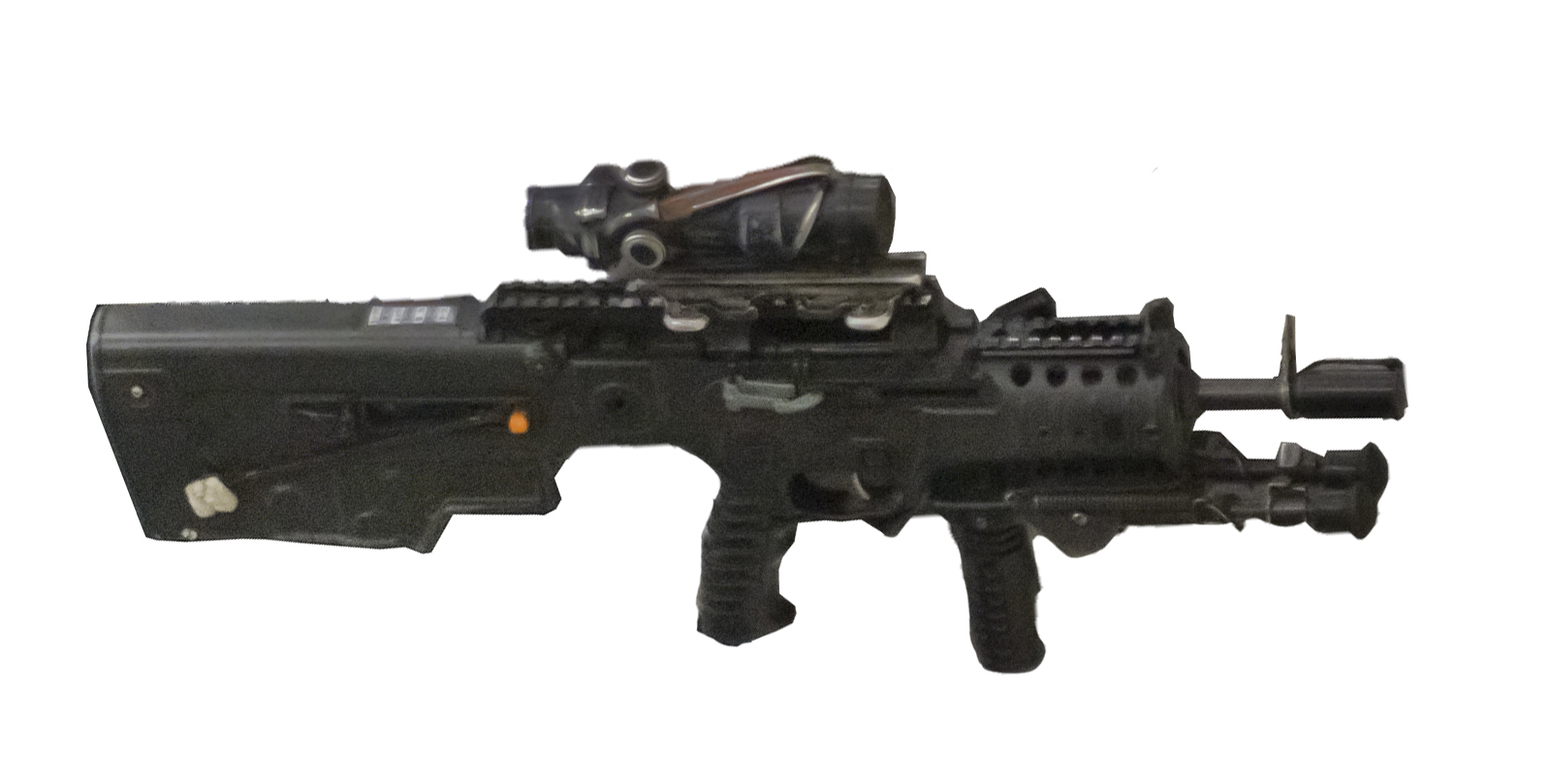 IWI Micro-Tavor Kalaim - X-95L